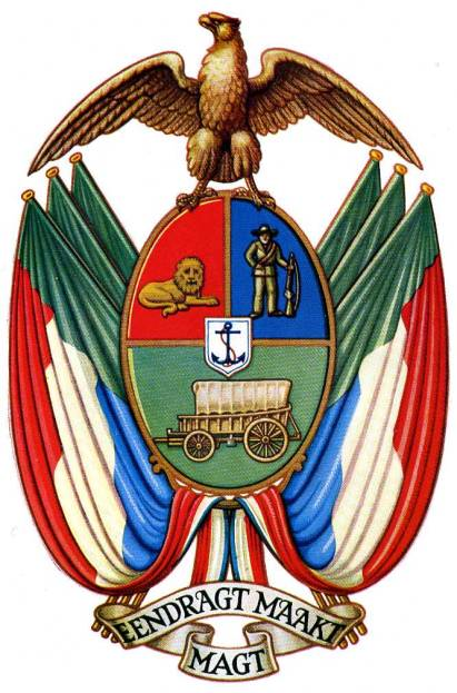 A variant of the Coat of Arms of the South African Republic, used for the Transvaal Province.